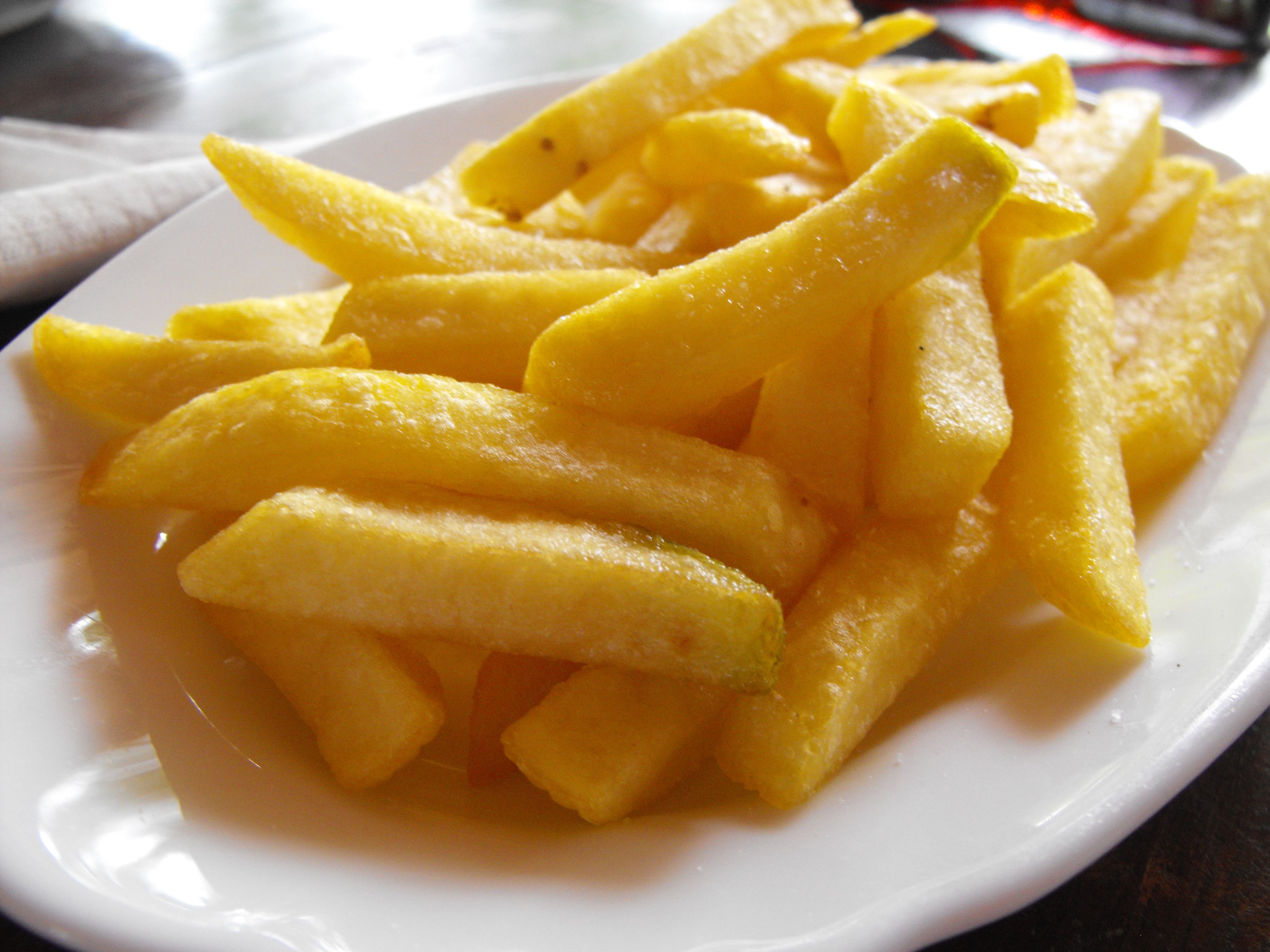 Chips